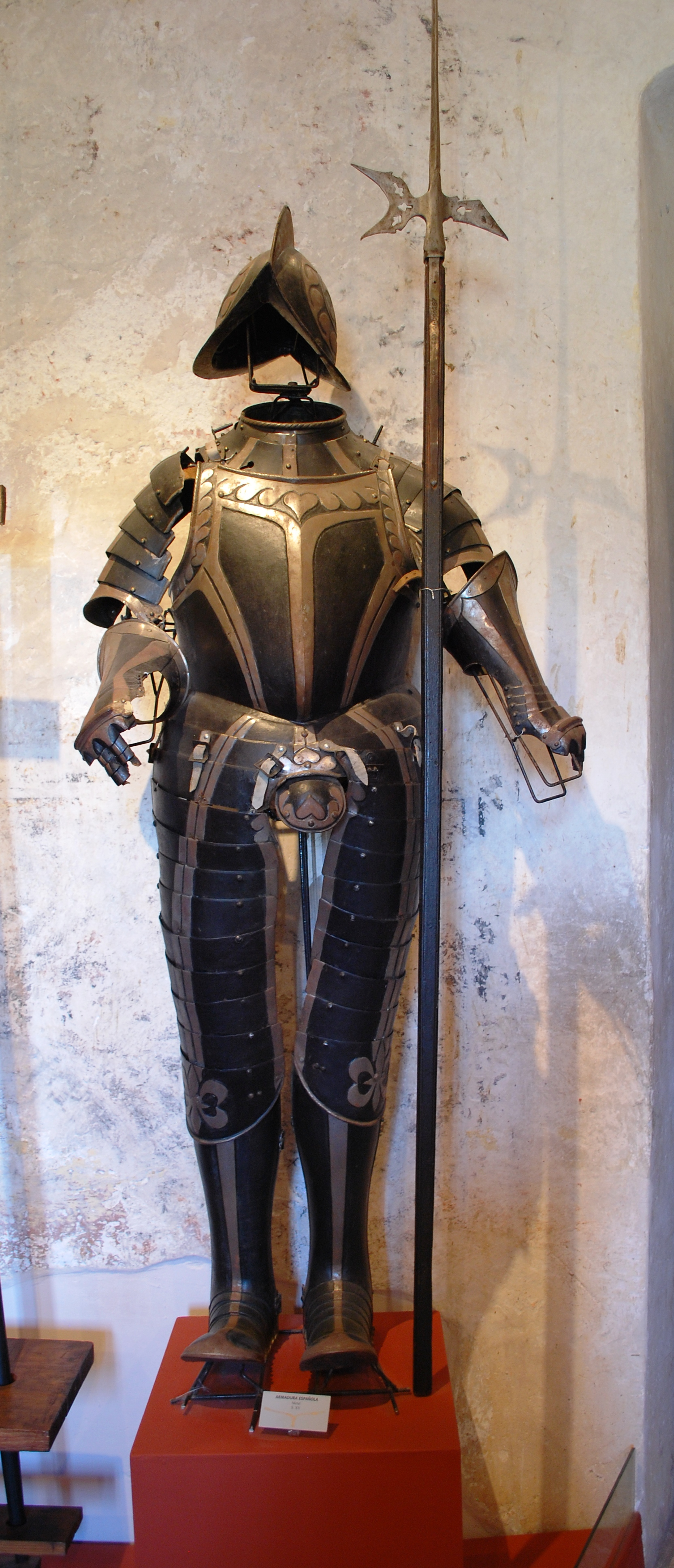 suit of armor on display at the Viceregal Museum in Zinacantepec, Mexico State